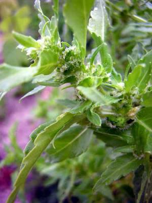 Mercurialis annua, closeup Source : [1]